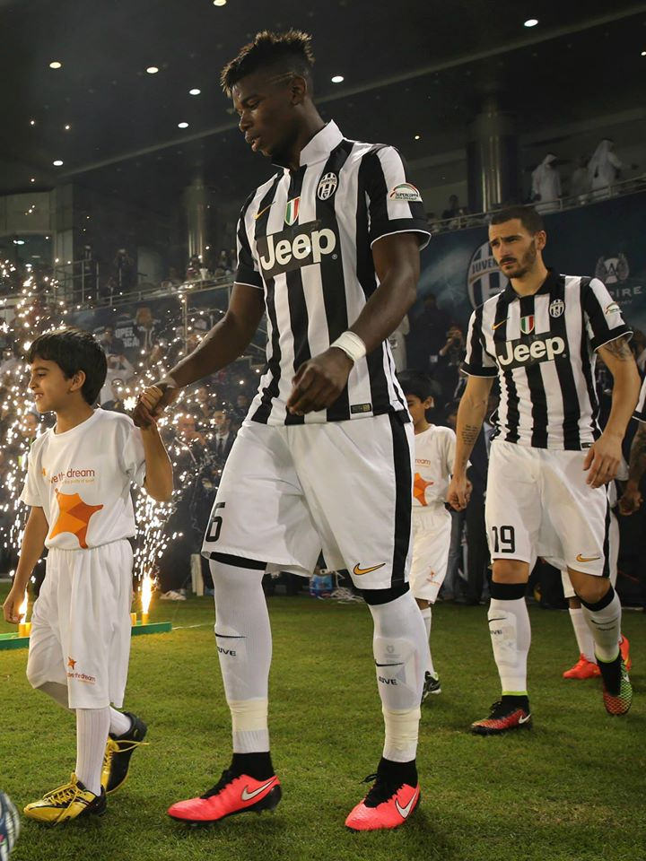 Save the Dream was proud to partner with Aspire Academy and the Qatar Football Association to spread the message of pure sport at the Italian Supercup finals between Juventus and SSC Napoli, held in Doha on December 22nd, 2014. Bianconeri's Paul Pogba and Leonardo Bonucci.